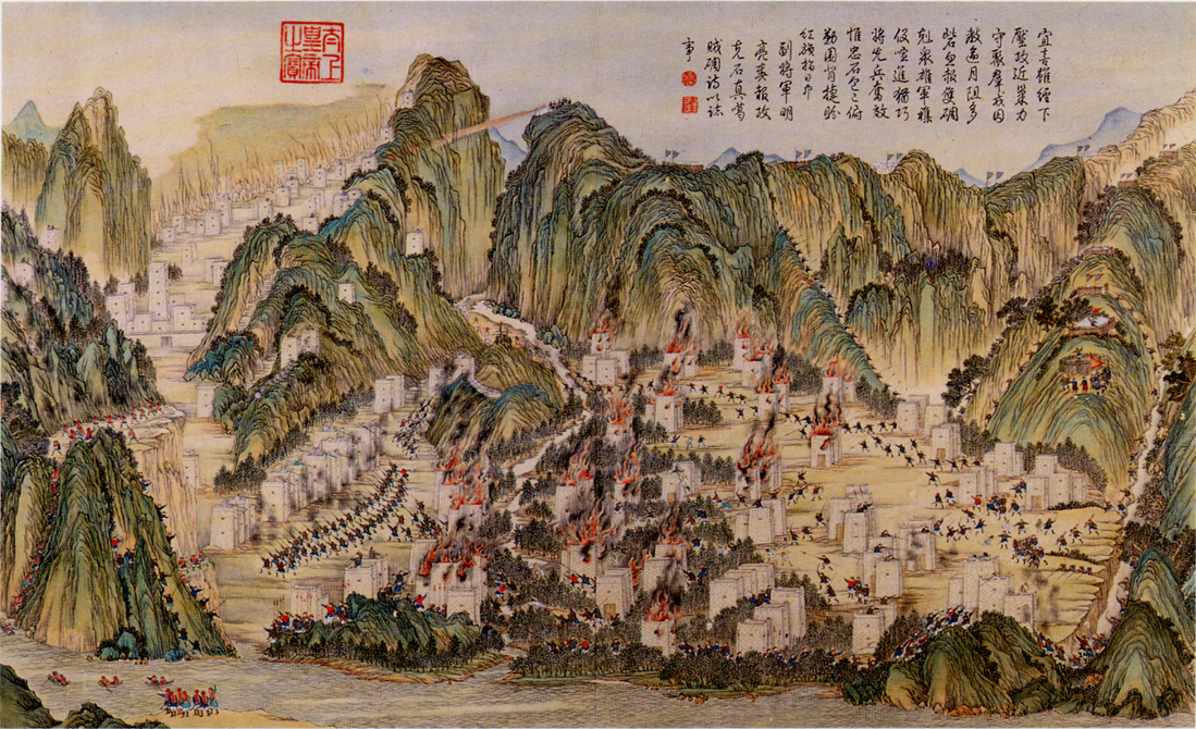 A scene of the Jinchuan Campaign 1771-1776